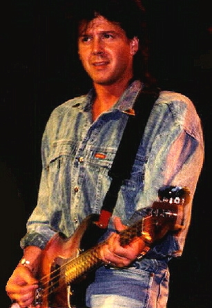 Fran Smith Jr. of The Hooters taken at The Spectrum - Philadelphia - 93.3 WMMR-FM Philadelphia 20th Anniversary Party (This was one of Fran's very first shows with The Hooters). This show included appearances by Greg Allman / Paul Carrack / Tommy Conwell / The Hooters / Richard Bush (of The A's) / Flamin' Harry / Glen Burtnik / Southside Johnny / Robert Hazard and unnamed others. Photo taken with a Canon A-1 Camera. No other photography details available.